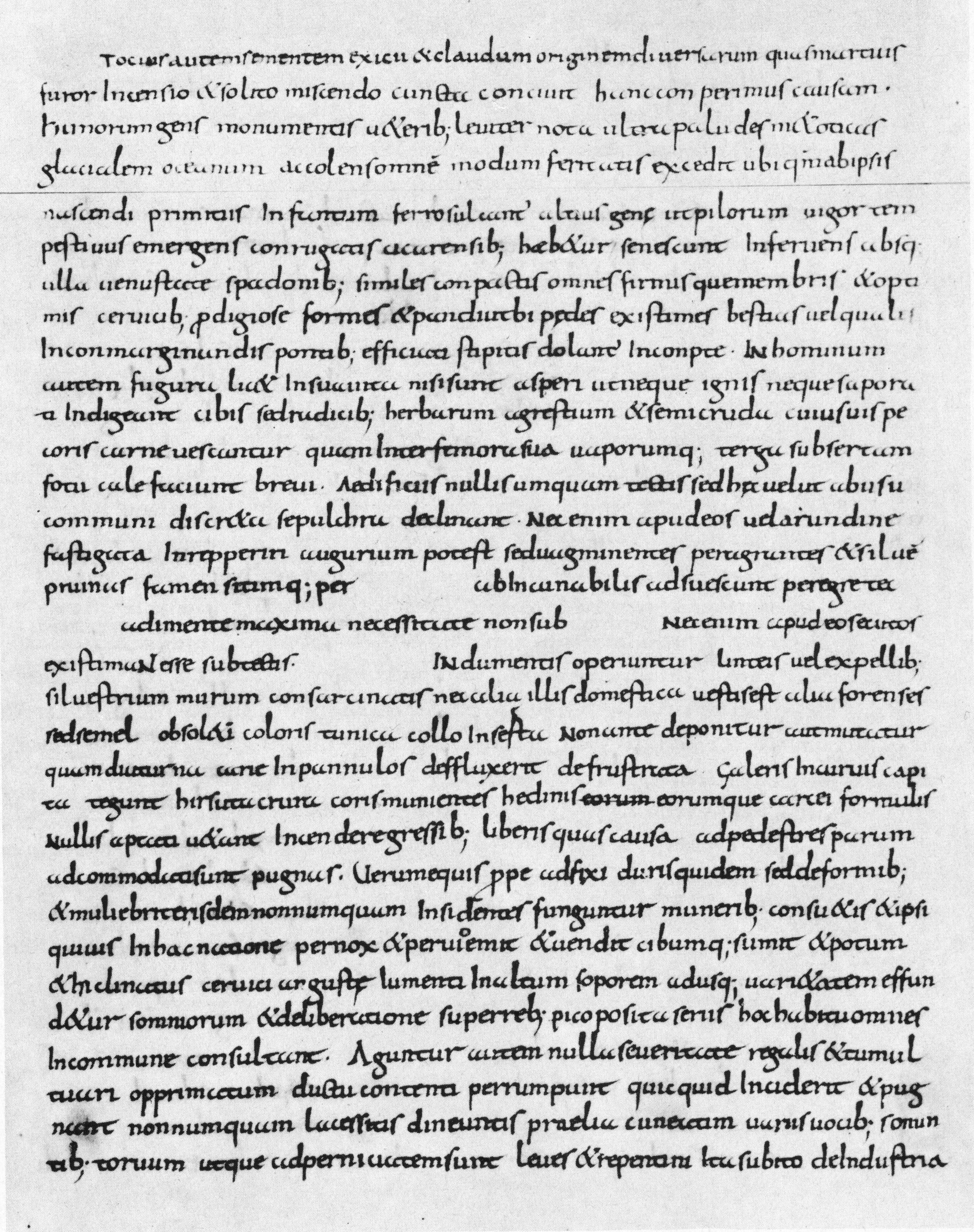 Ammianus Marcellinus, Res gestae 31,2, in ms. Biblioteca Apostolica Vaticana, Vaticanus lat. 1873.